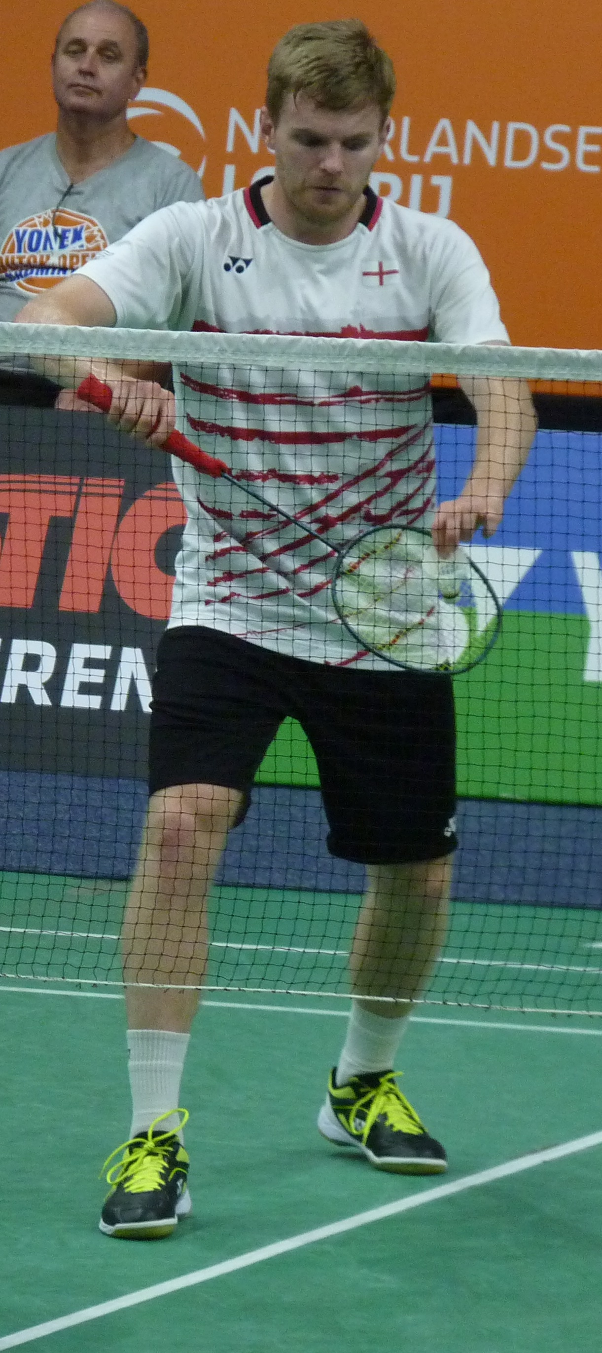 Marcus Ellis (ENG)